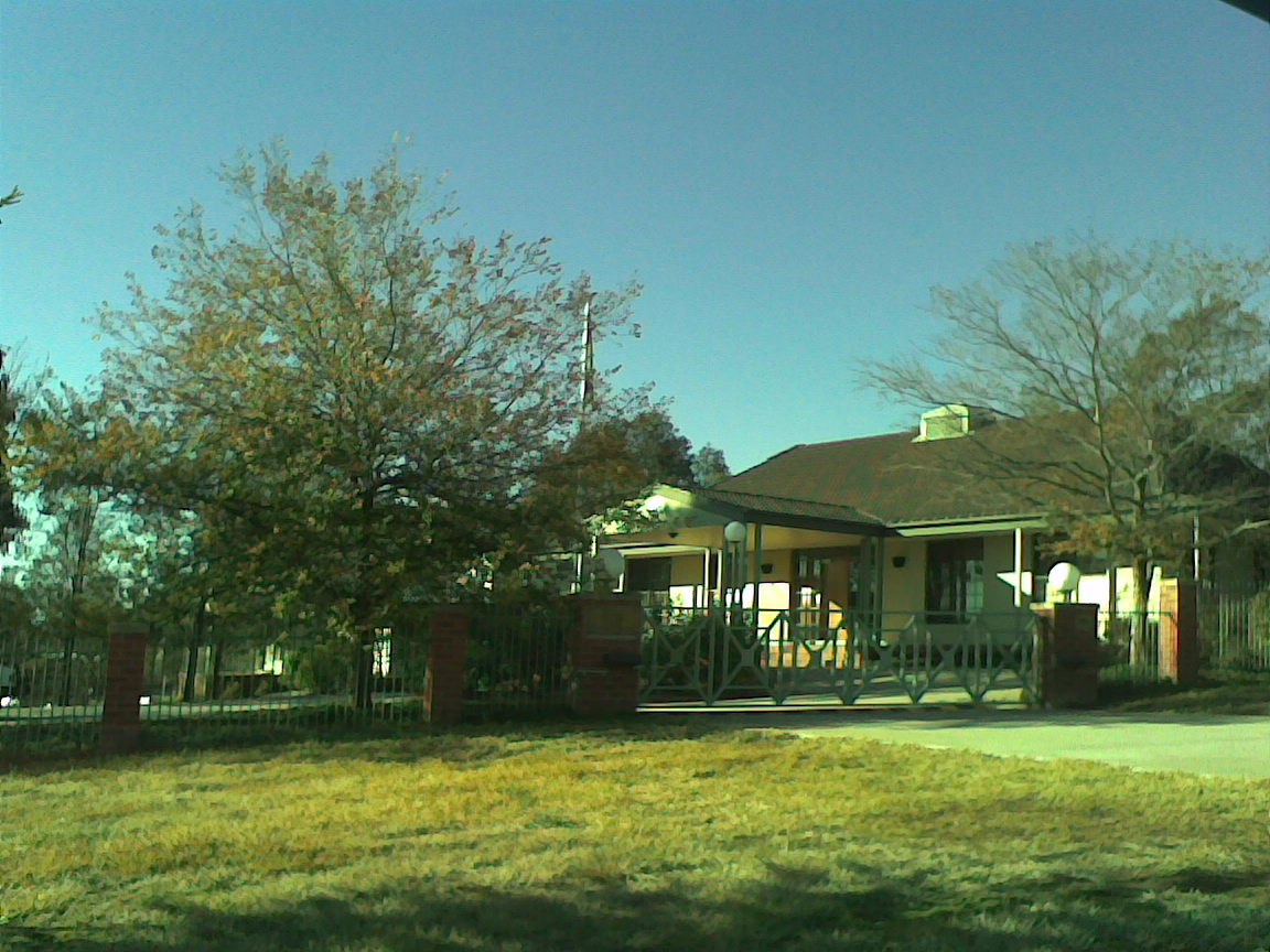 High Commission of Mauritius in Canberra